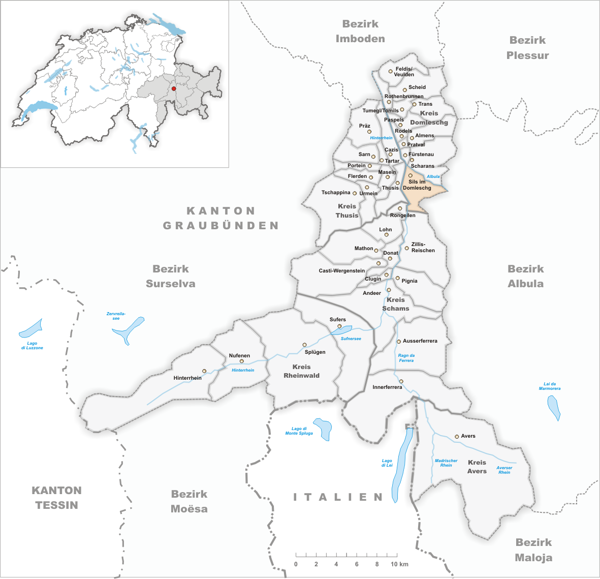 Municipality Sils im Domleschg